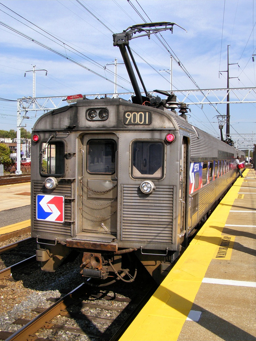 Former Reading Railroad Silverliner II #9001 seen at the Wayne Junction SEPTA station in 2010.